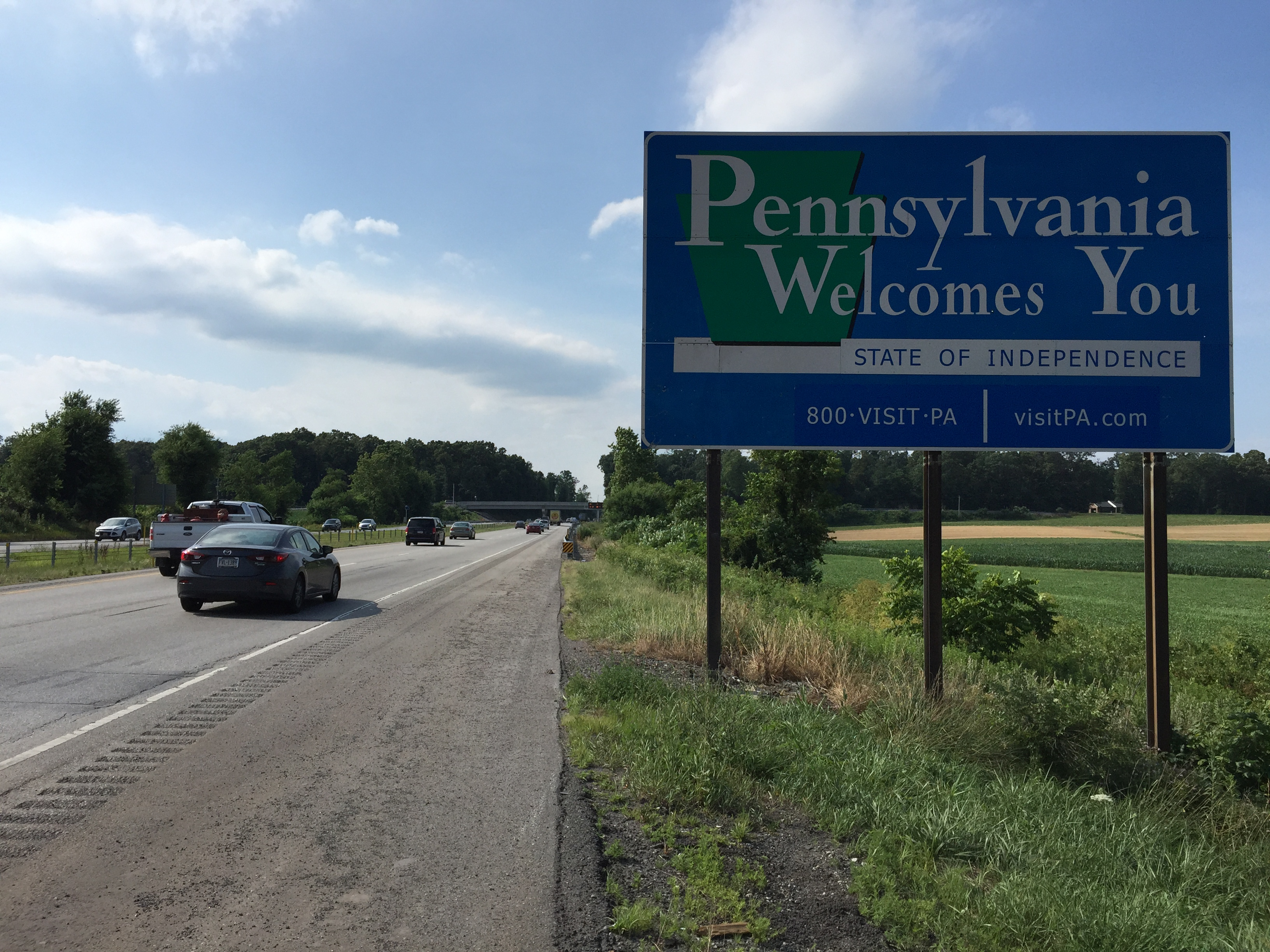 Pennsylvania Welcomes You sign along northbound Interstate 83 entering Shrewsbury Township, York County, Pennsylvania from Maryland Line, Baltimore County, Maryland